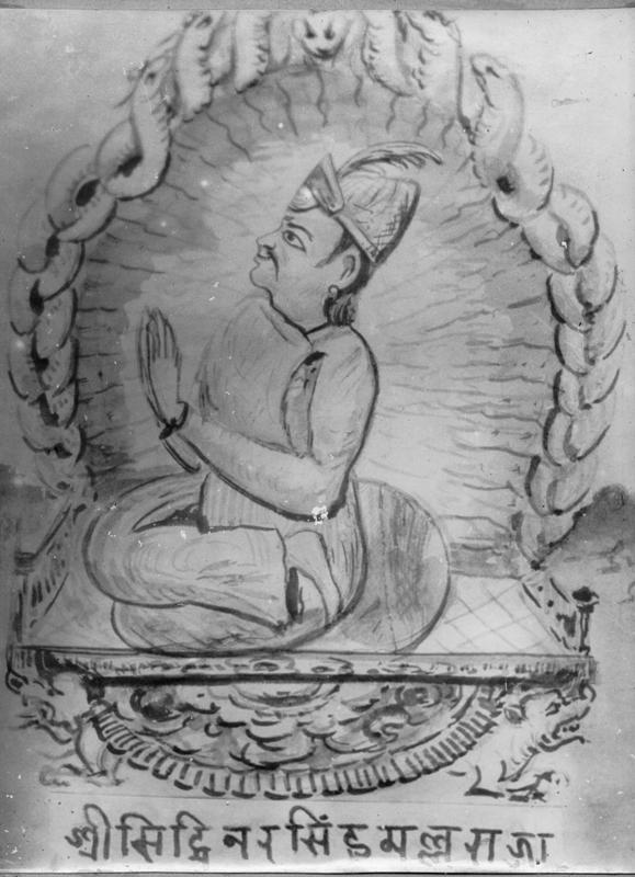 Siddhi Narasimha Malla, king of Lalitpur from 1620 - 1661